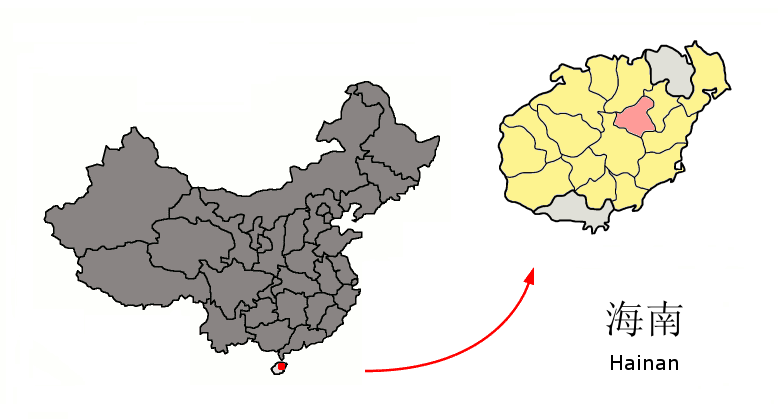 Location of Tunchang County (pink) and the subdivisions directly administered by the province (yellow) within Hainan province of China Map drawn in september 2007 using various sources, mainly : Hainan Counties map from